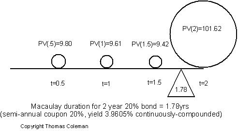 Example of Macaulay duration for a 2 year semi-annual bond, 20% coupon, yield 4%sab, 3.9605% continuously-compounded